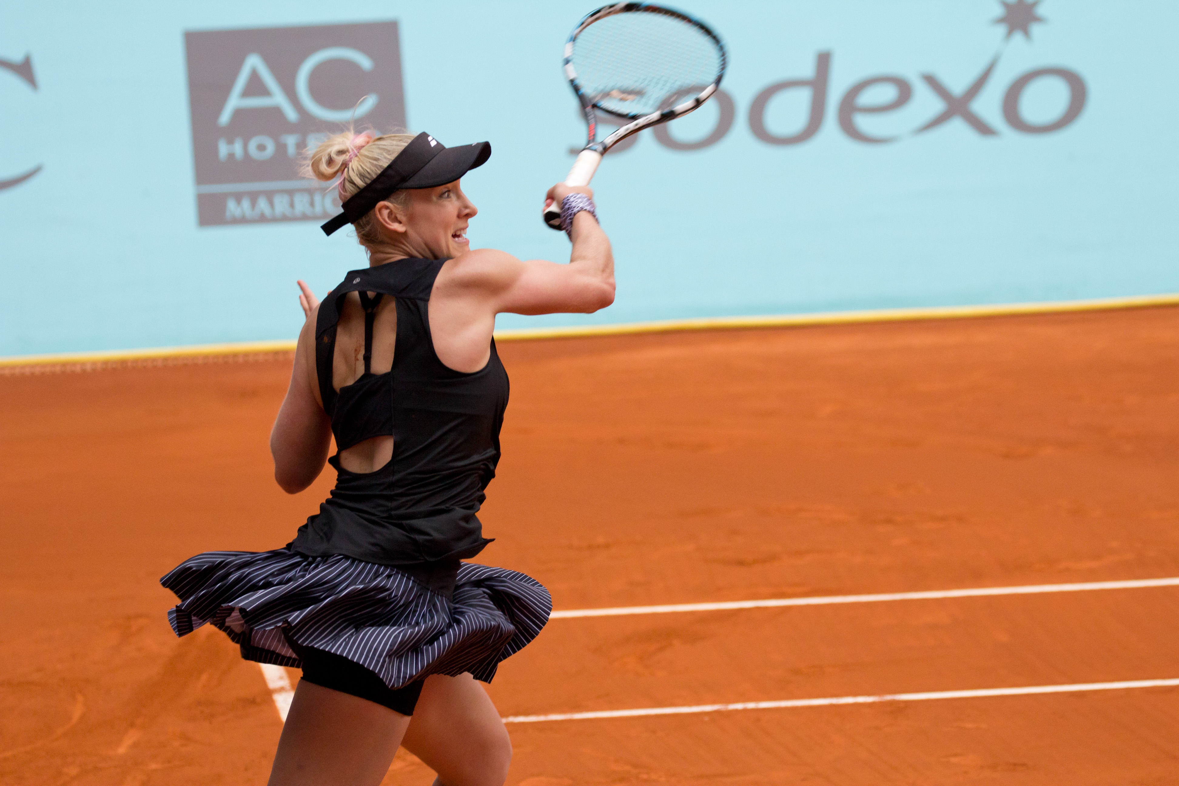 Bethanie Mattek-Sands at the Madrid Open 2015, Madrid, Spain.